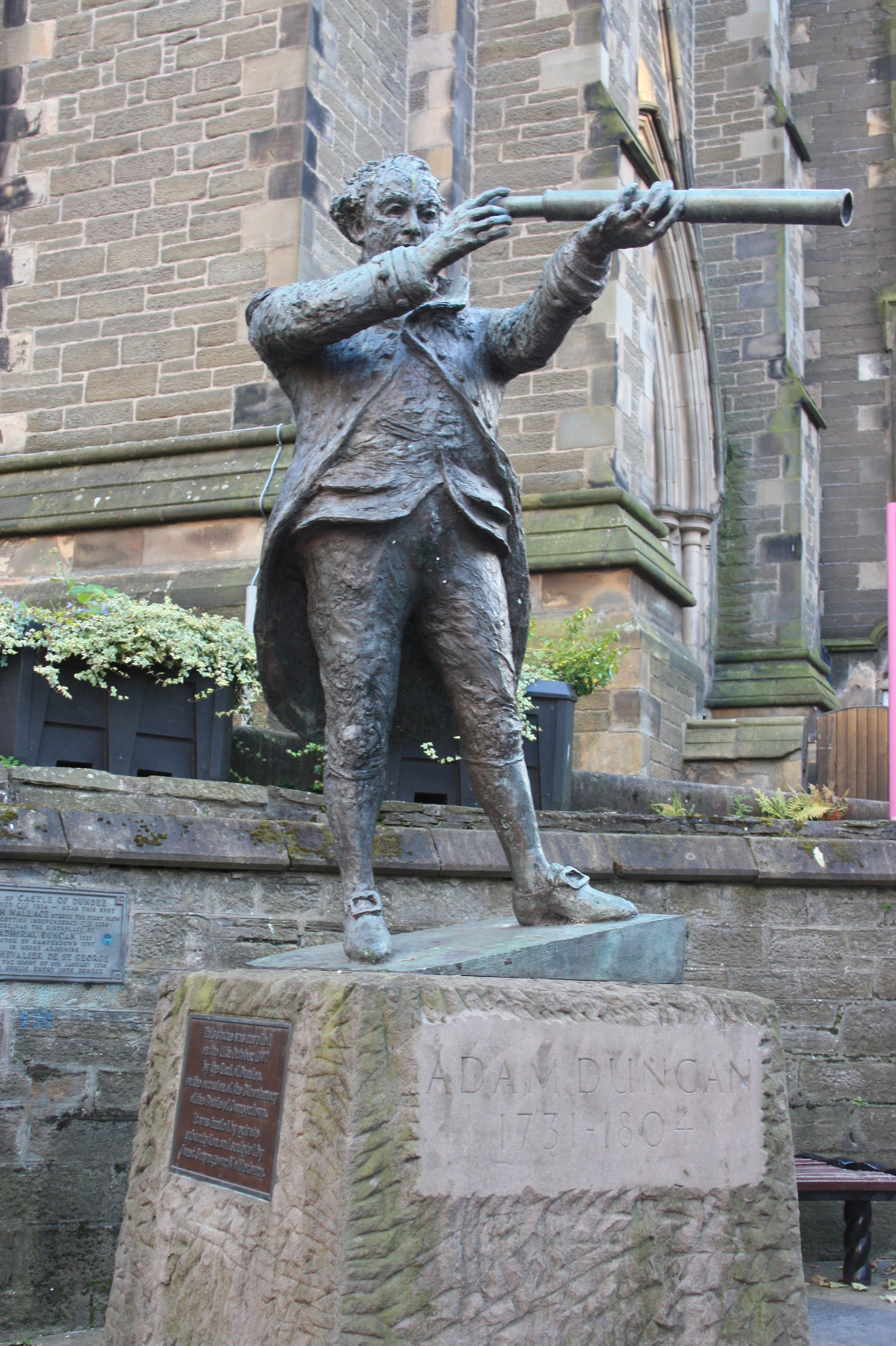 Statue of Admiral Duncan, Dundee